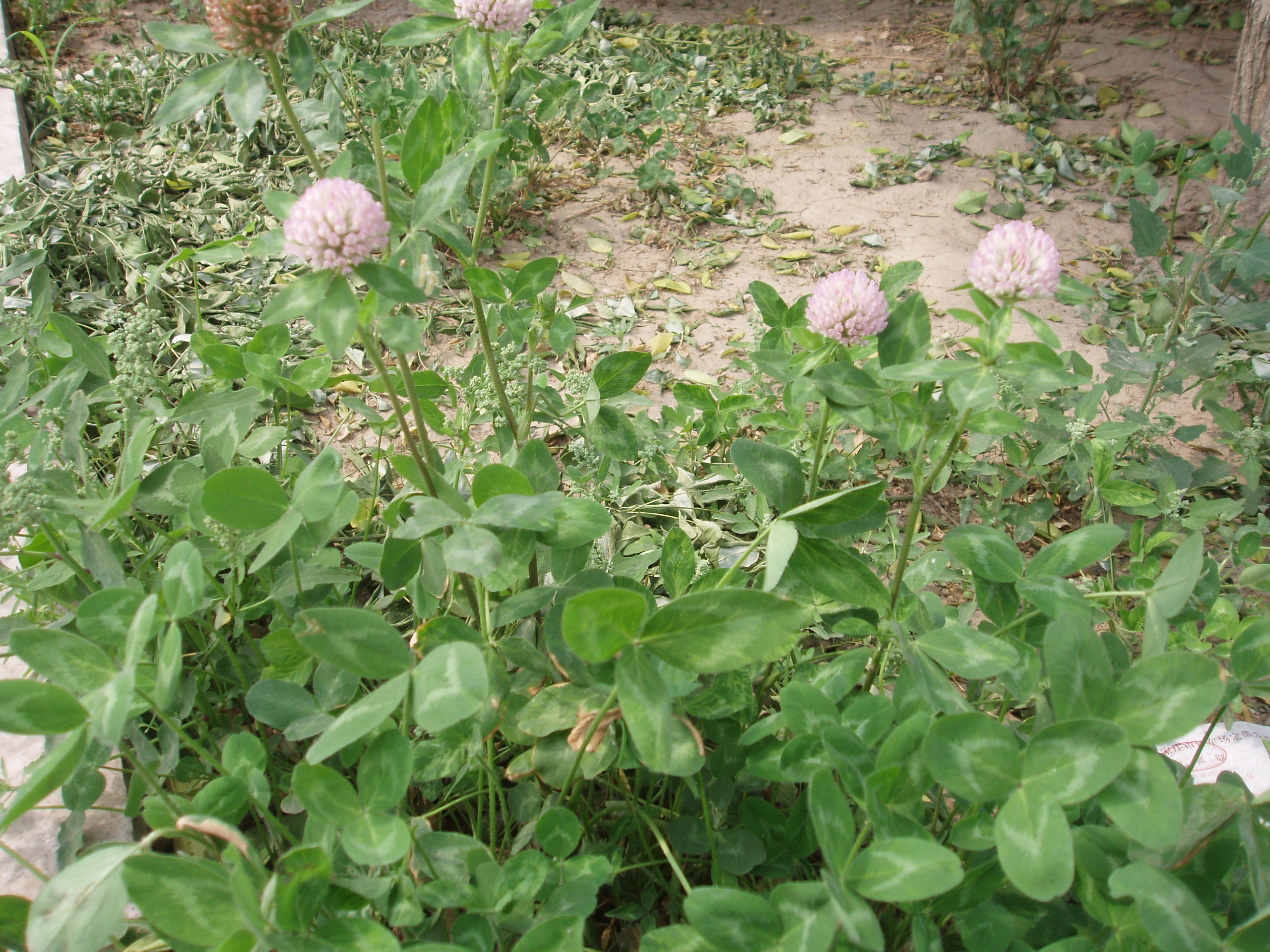 Cowgrass